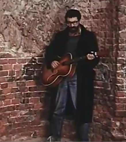 Portuguese